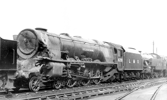 Pacific locomotive after Winsford crash. View eastward at Crewe Works, ex-London & North Western Railway: 'Coronation' 4-6-2 (Pacific) No. 6251 'City of Nottingham' awaits repair. It had been heading the Up West Coast Postal when it collided at 40+ mph with the rear of the 17.40 Glasgow to Euston express, which had been stopped in open country in the middle of the night after a soldier on Leave had pulled the communication cord to get home across the fields and the express had been wrongly reported 'out of section' by the Winsford signalman.